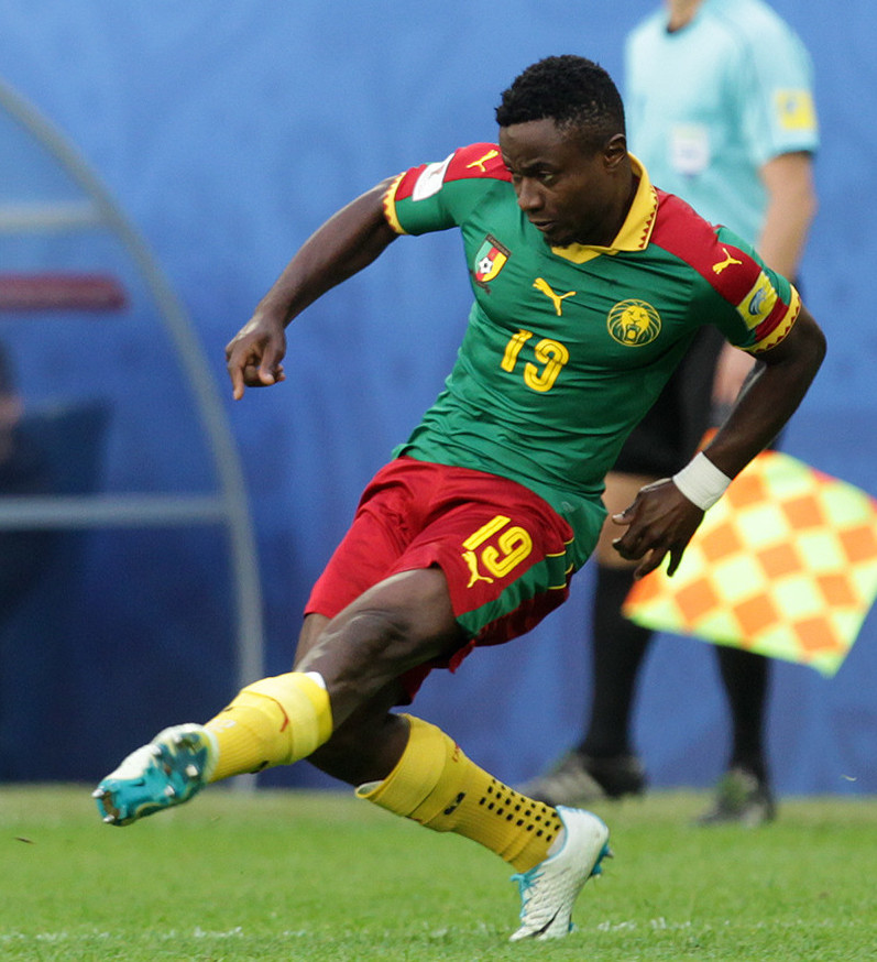 Cameroon vs Australia (1-1). FIFA Confederations Cup 2017